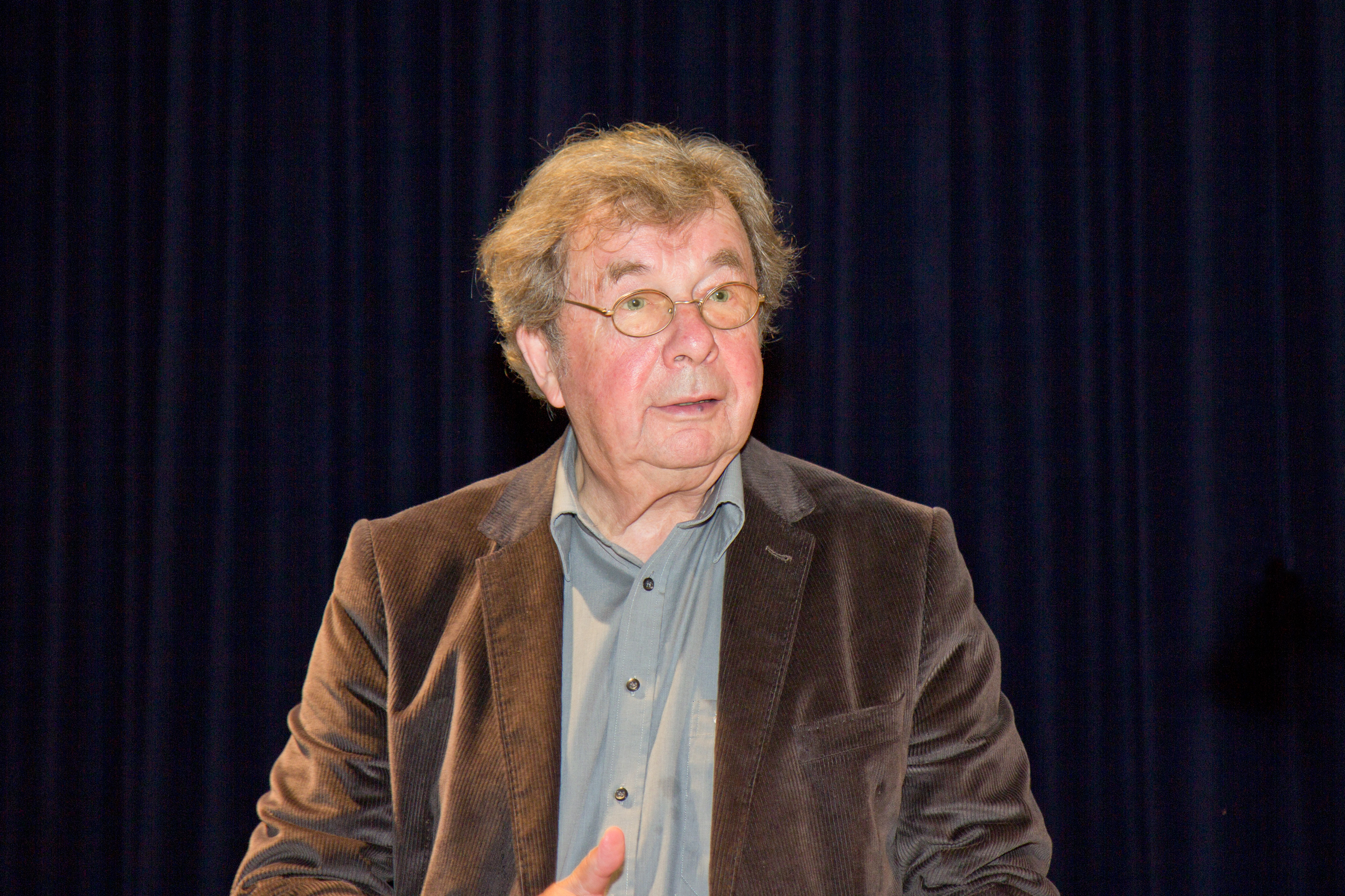 Hellmuth Karasek, german journalist, critic and writer.